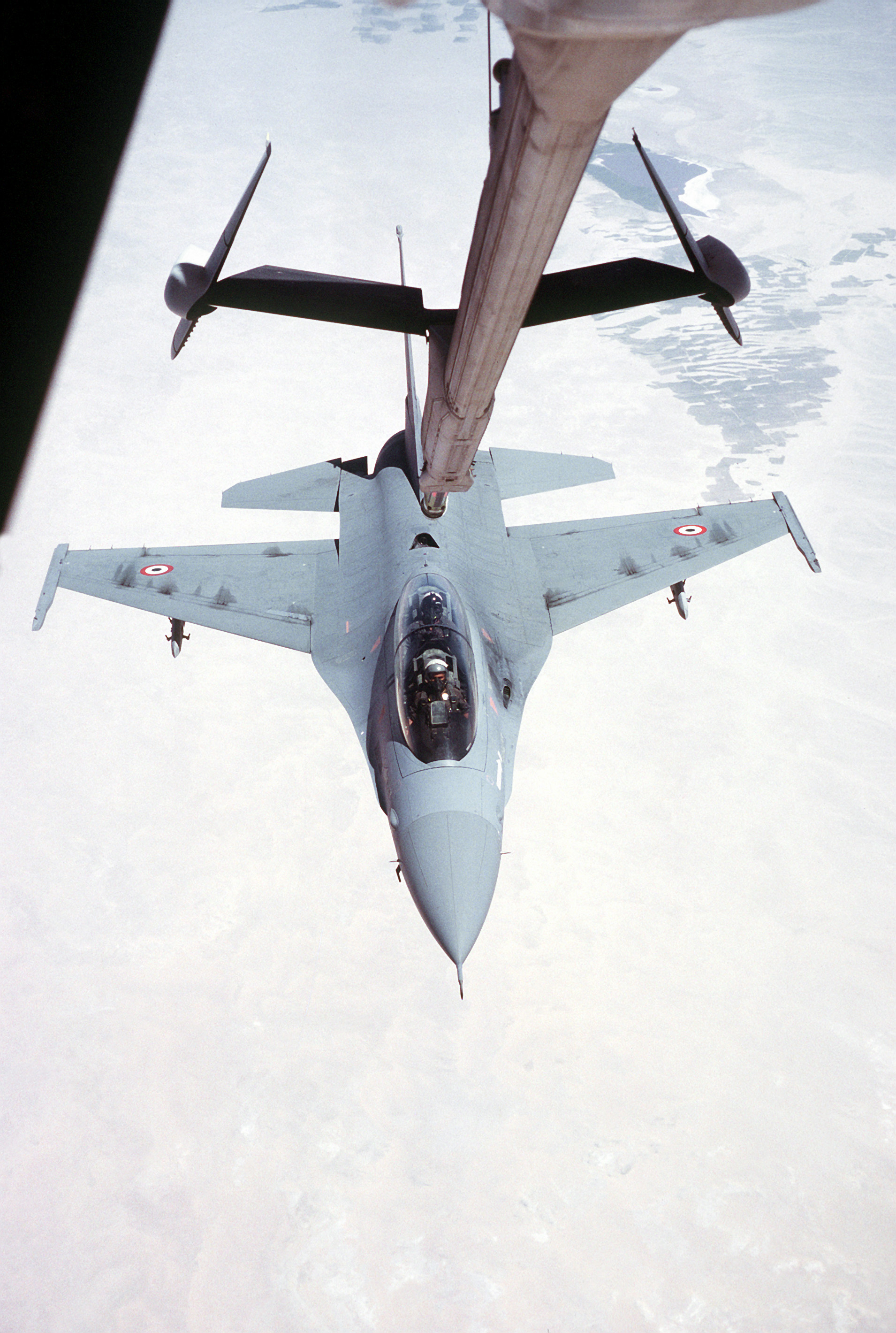 An Egyptian Air Force F-16 Falcon is aerial refueled over the desert during BRIGHT STAR '83, the joint U.S. and Egyptian military training exercise.